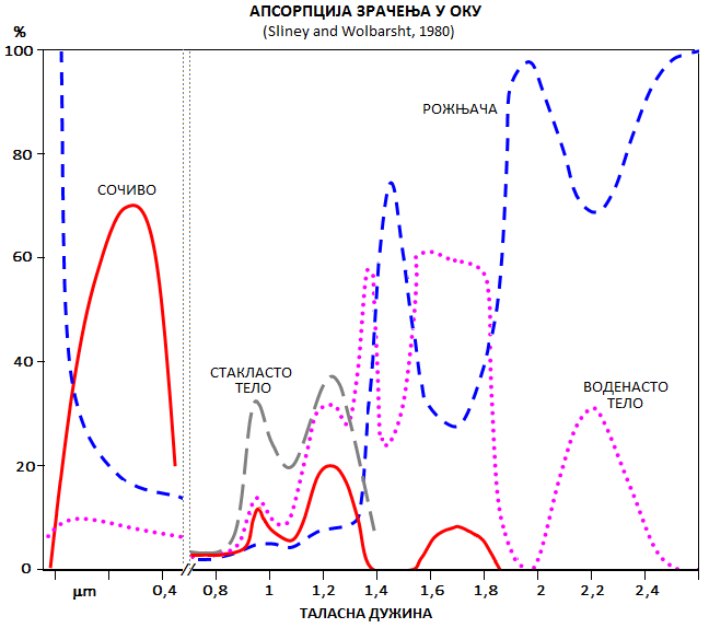 АПСОРПЦИЈА ЗРАЧЕЊА У ЉУДСКОМ ОКУ